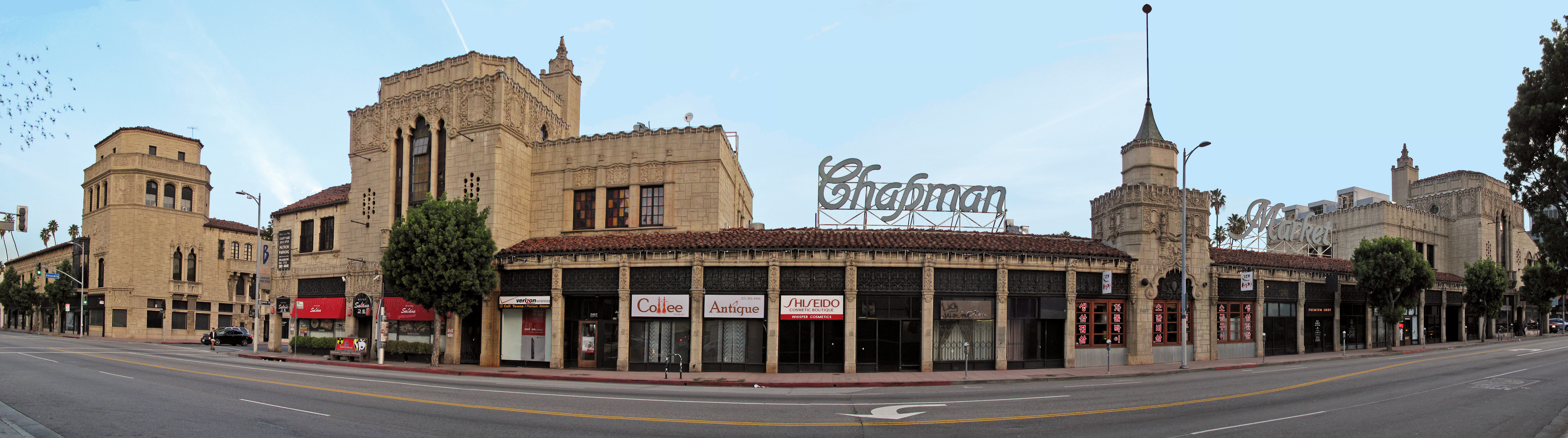 Chapman Park Market Building — 3451 W. 6th Street, Mid-Wilshire district, Los Angeles, California. Los Angeles Historic-Cultural Monument #386. The building on the left is the Chapman Park Studio Building — Los Angeles Historic-Cultural Monument #280. This is a four-image panorama taken early in the morning.